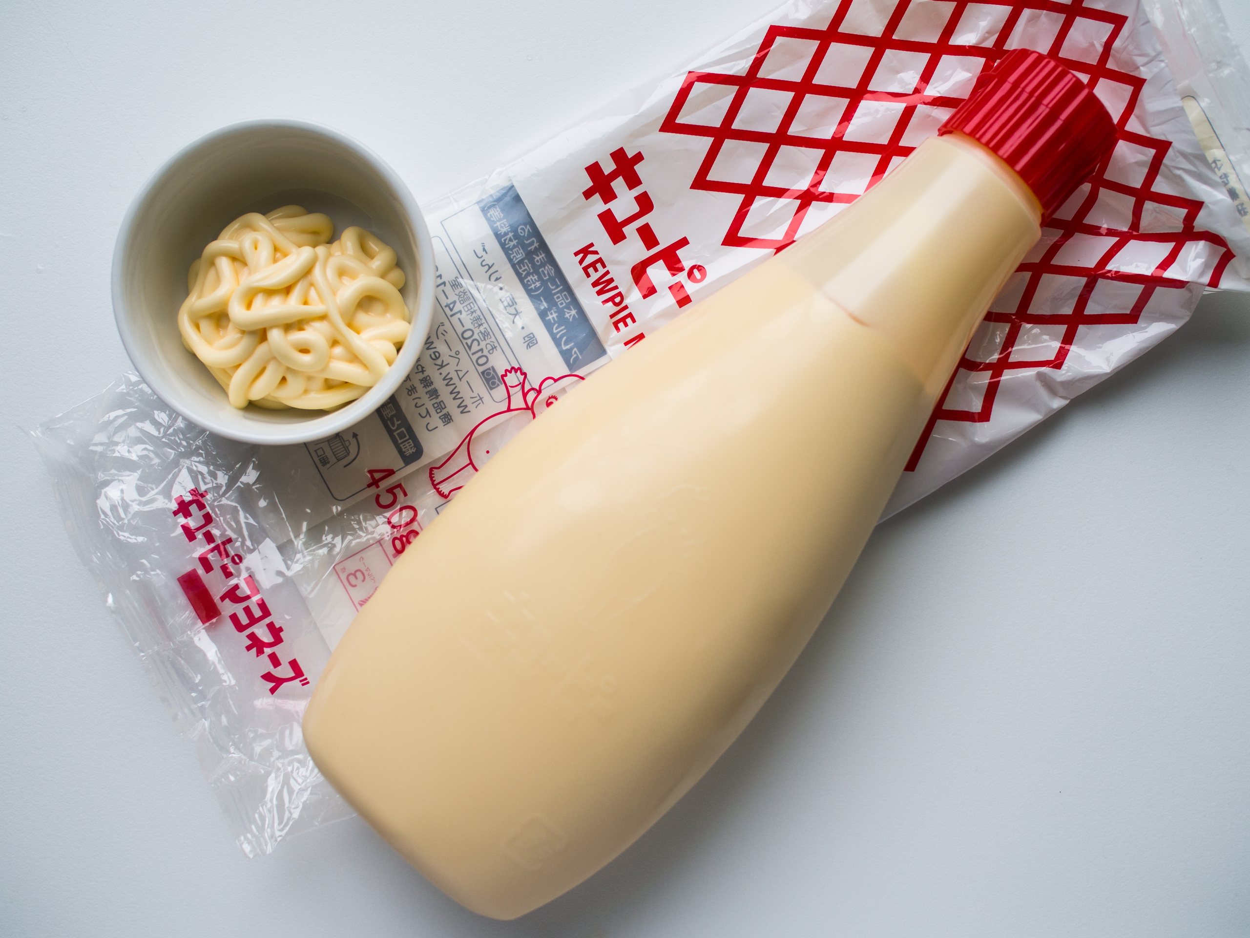 Japanese Kewpie mayonnaise bought from an Asian food store in The Hague, Netherlands. The bottle is made from a surprisingly soft plastic, making it feel more like a plastic bag.